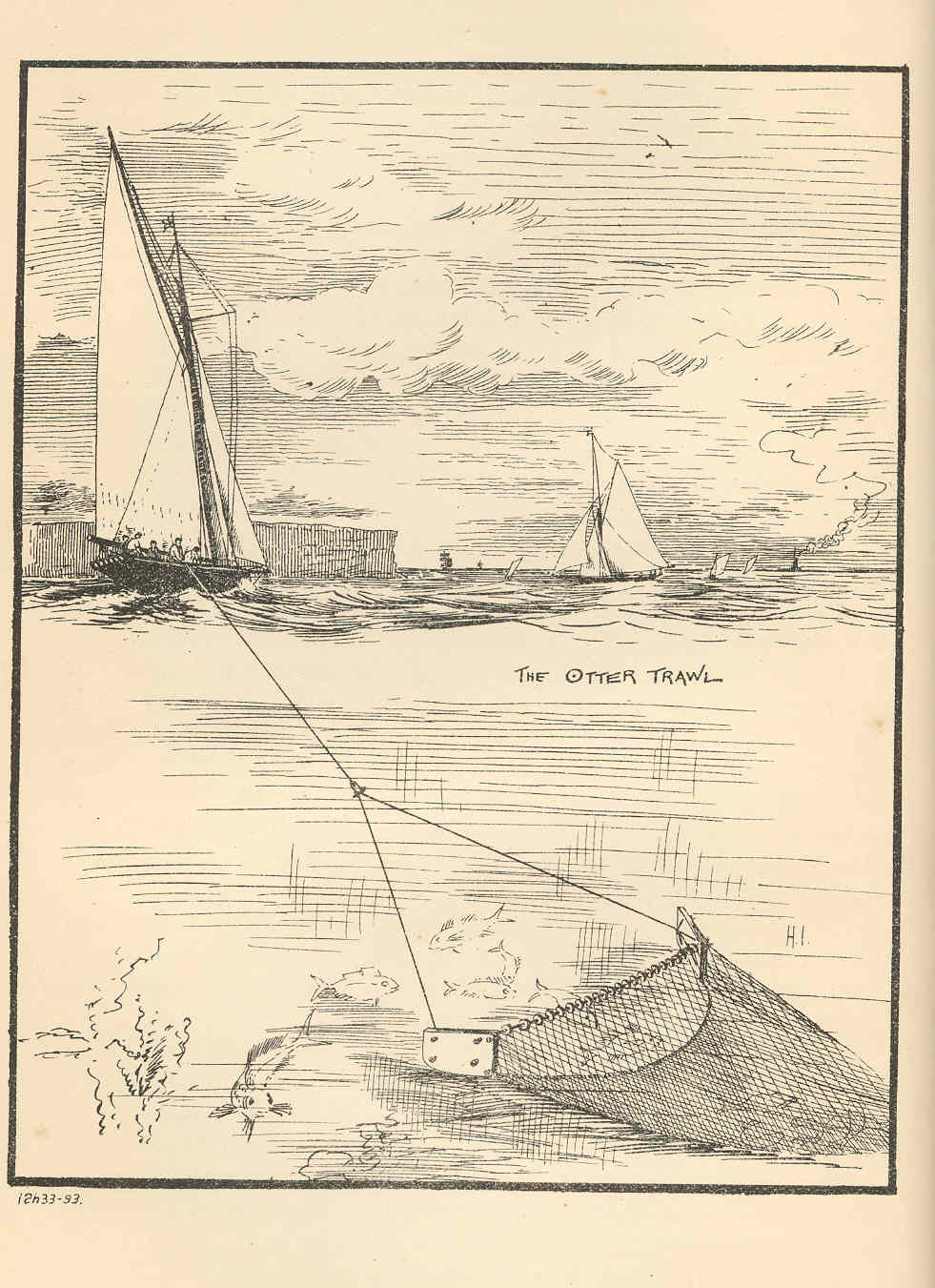 Otter trawl Subject: Fishing nets, Fishing boats, Trawls and trawling Tag: Fisheries Techniques